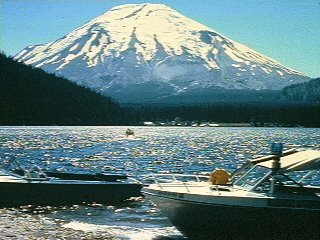 Spirit Lake and Mount St. Helens before the 1980 eruption.